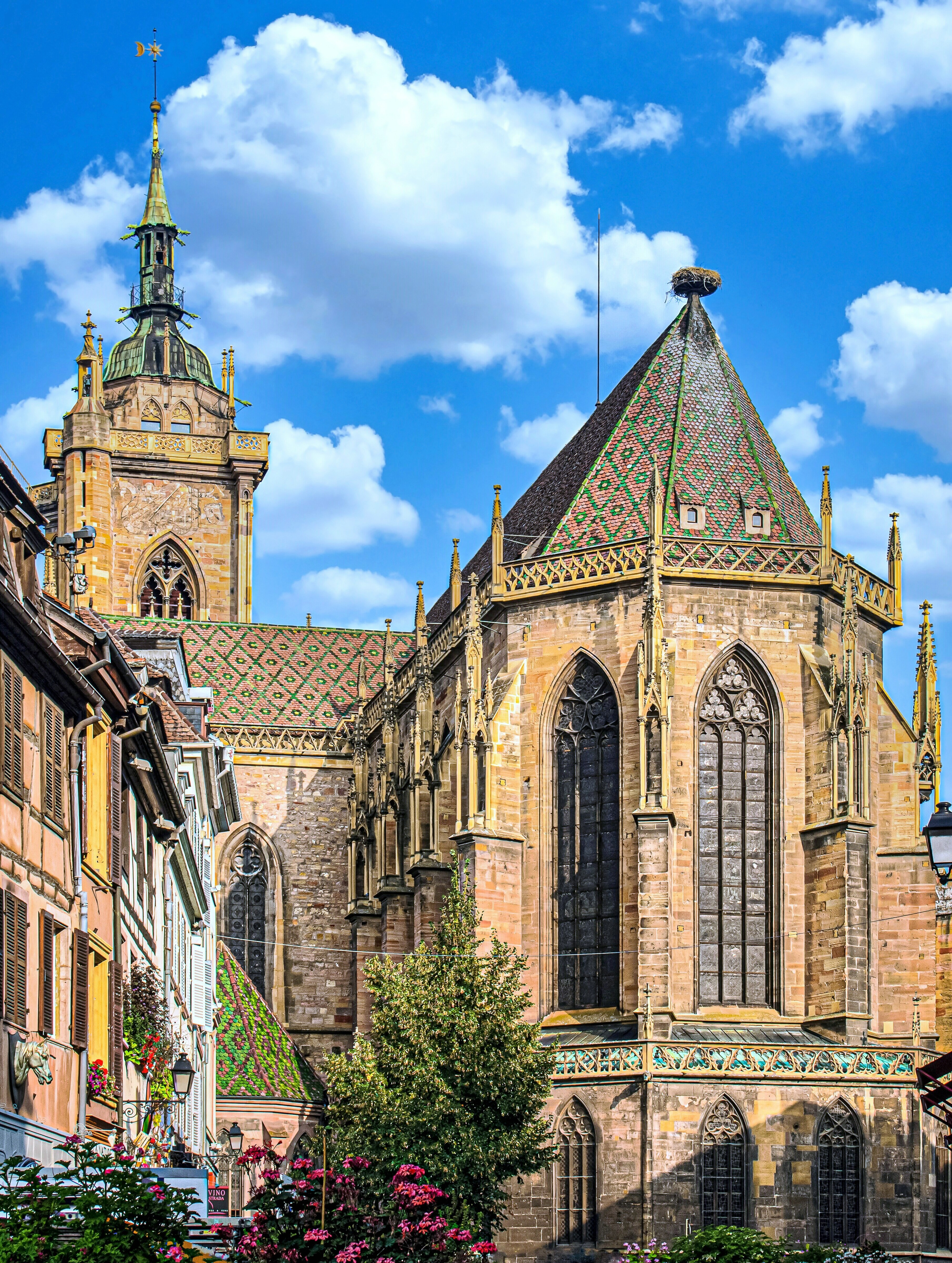 Colmar, apse of Saint-Martin.